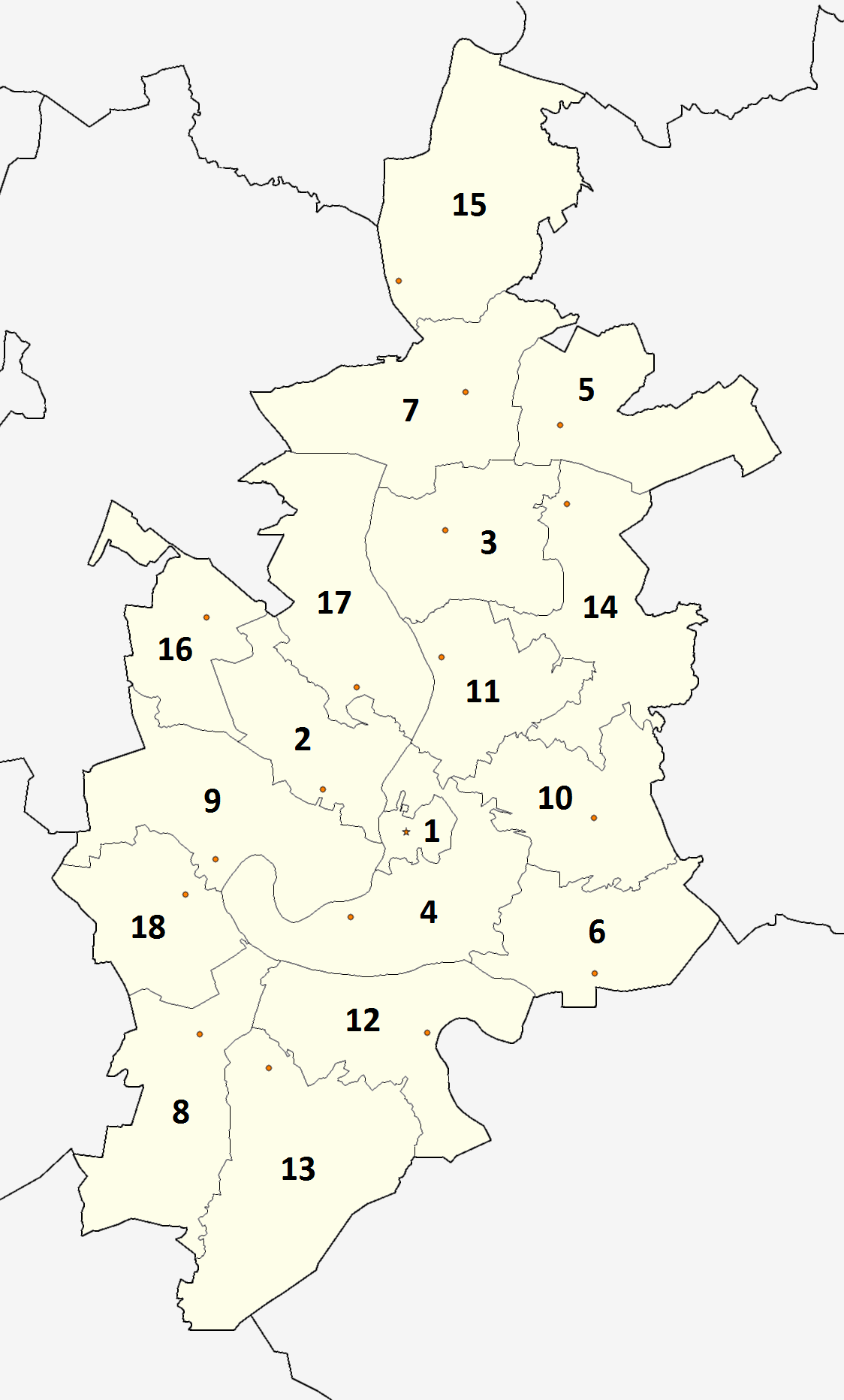 Map of administrative units of Zadonsky District of Lipetsk Oblast